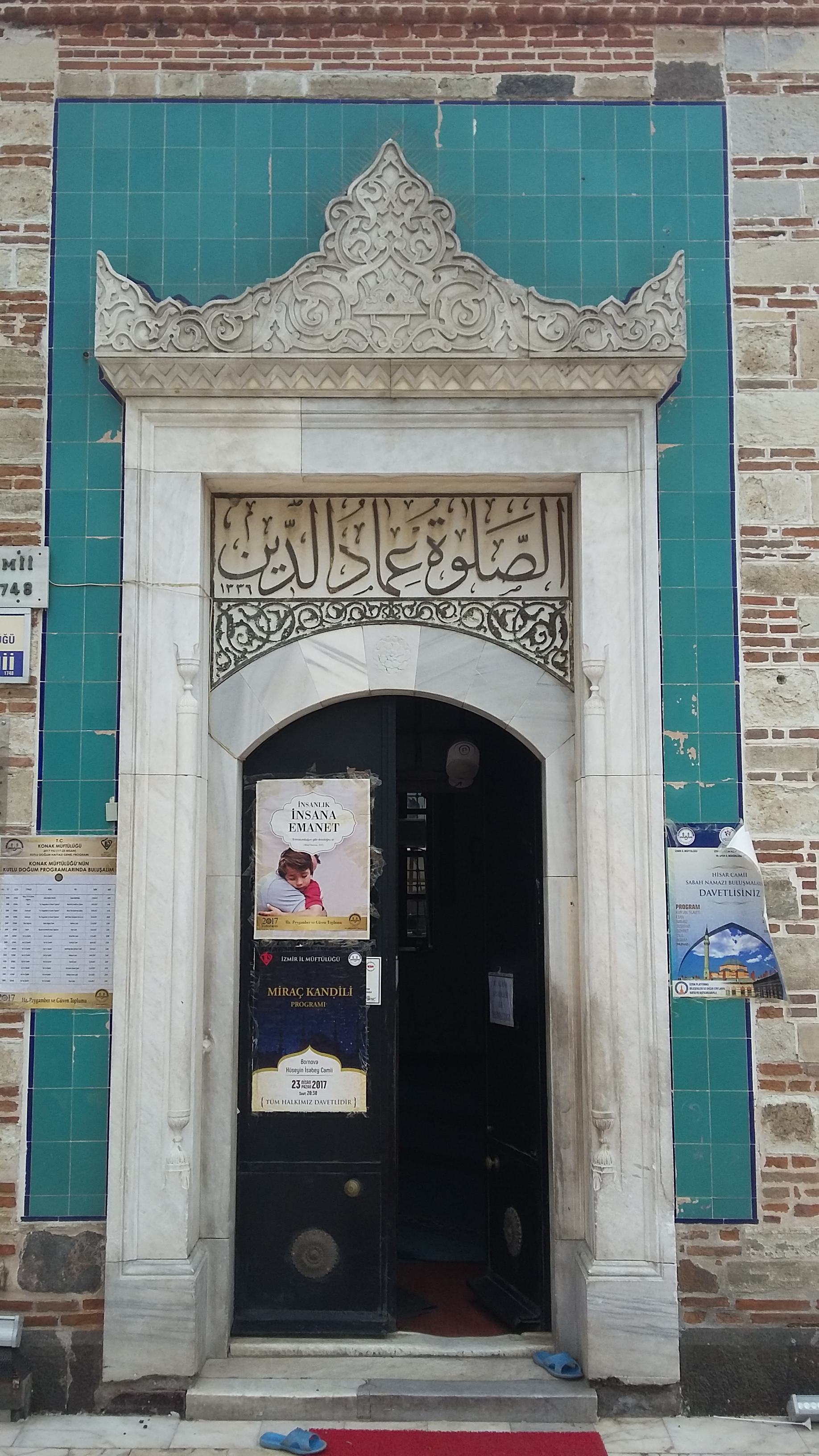 Gate of Konak Yalı Mosque